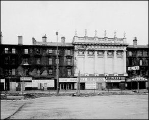 Statues on the roof od the Citizens Theatre prior to 1977